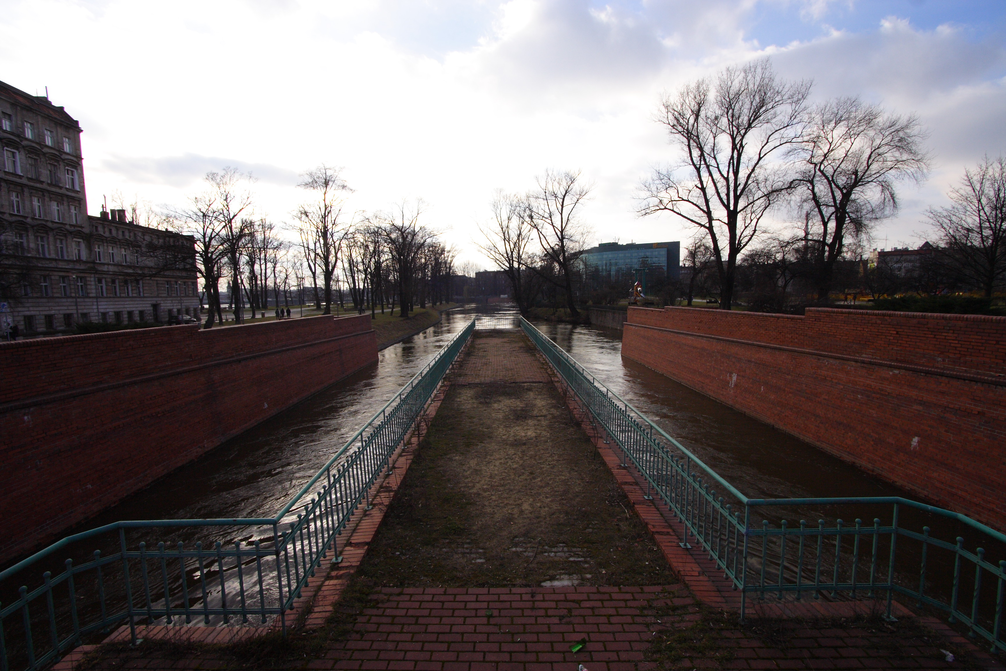 Wroclaw during WikiConference Poland'11